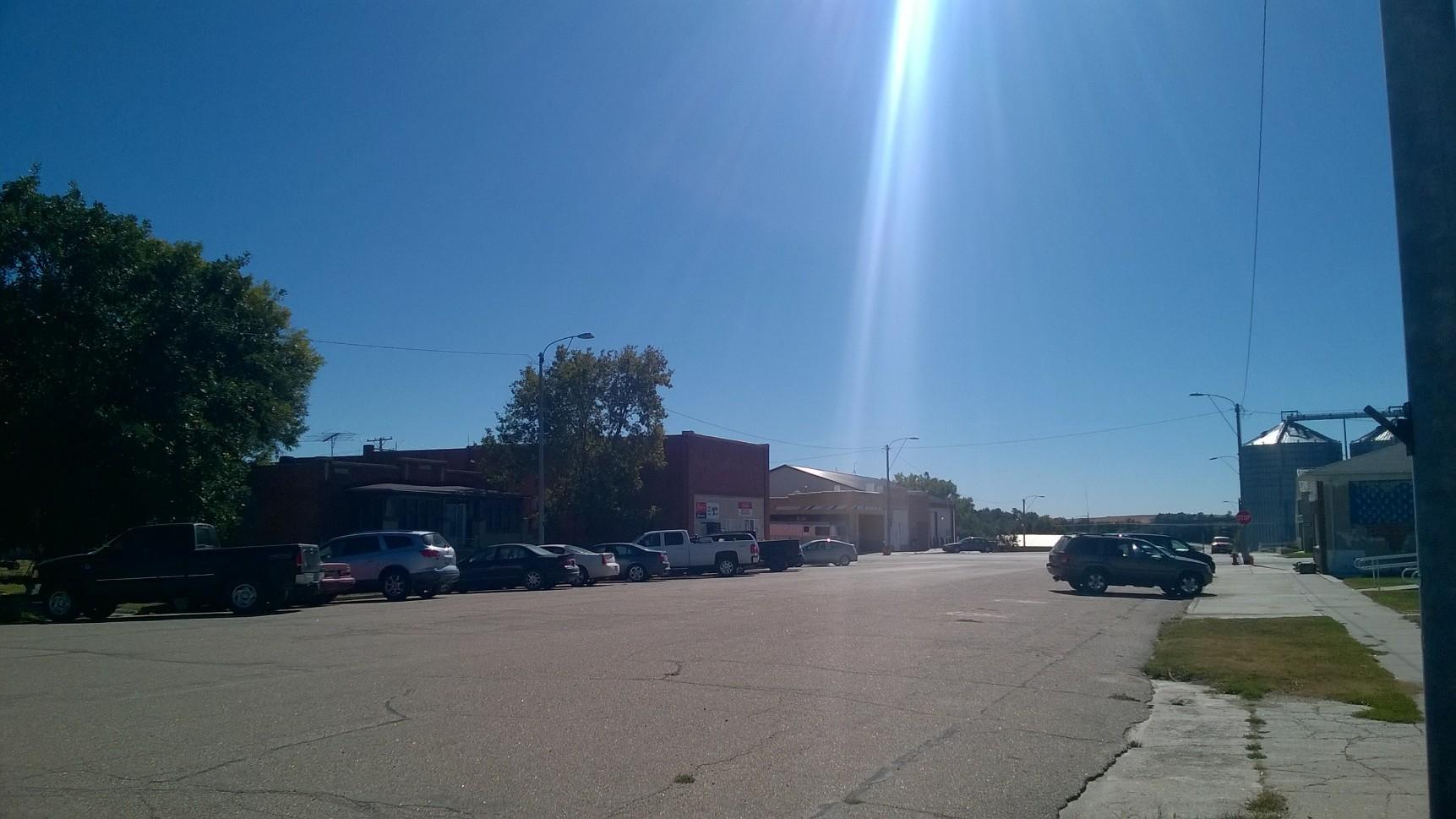 October afternoon in Farnam, Nebraska.